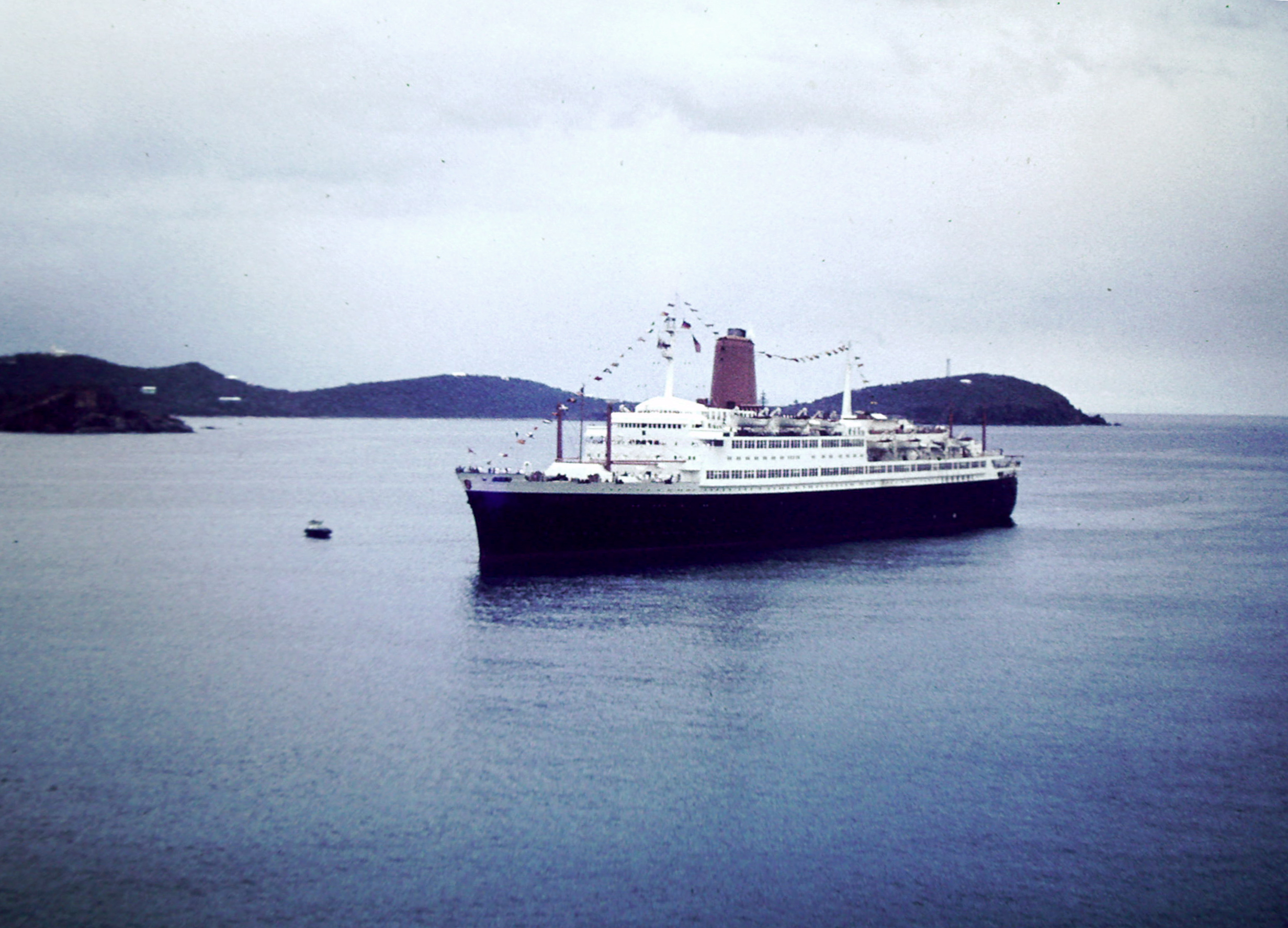 Passenger ship TS Bremen, Saint Thomas Island, Caribbean Sea, in the spring of 1968